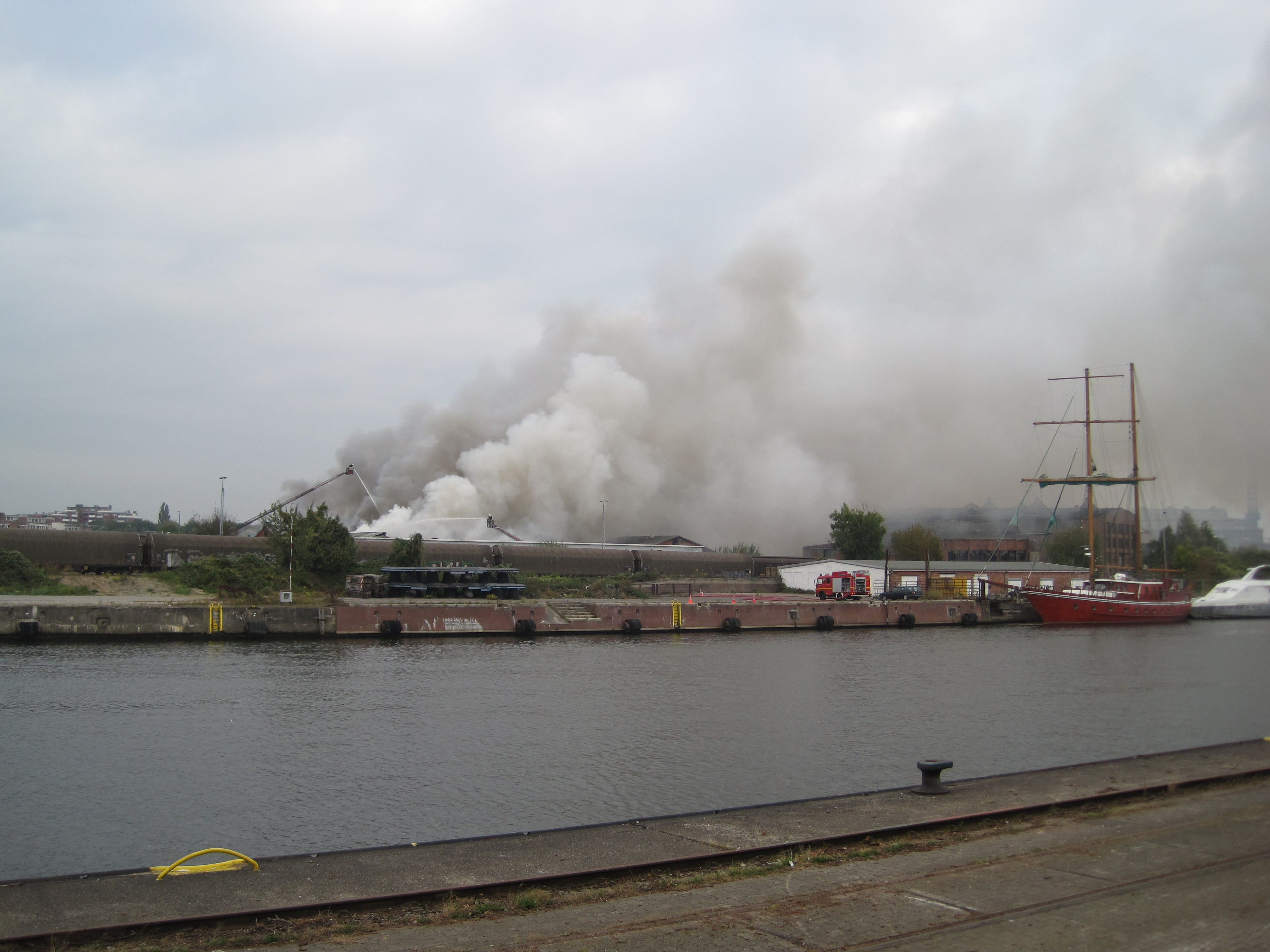 Fire on 4. october 2011 at Roddenkoppel in Lübeck port